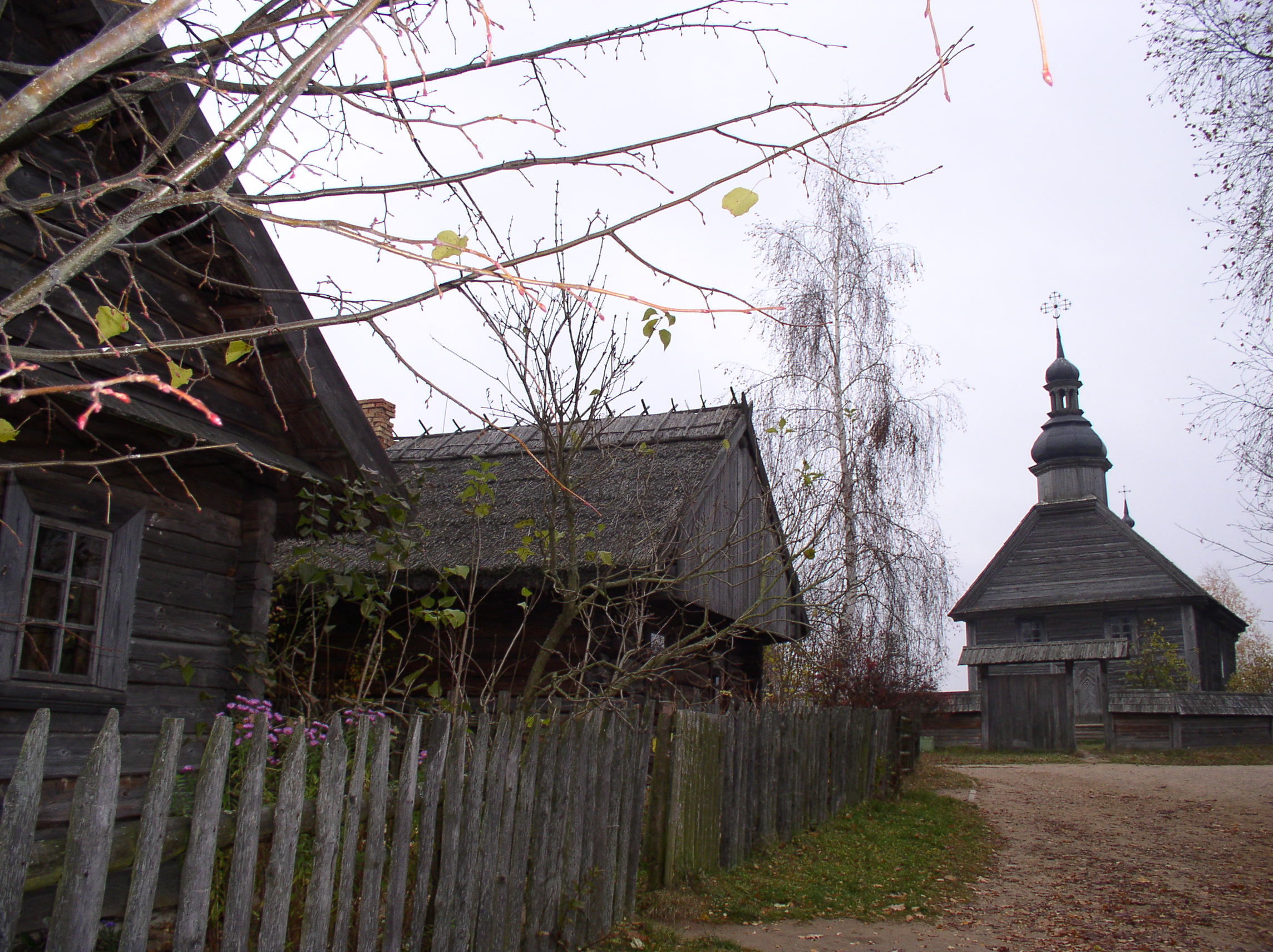 House from Central Belarus. State museum of folk architecture and life, Belarus.